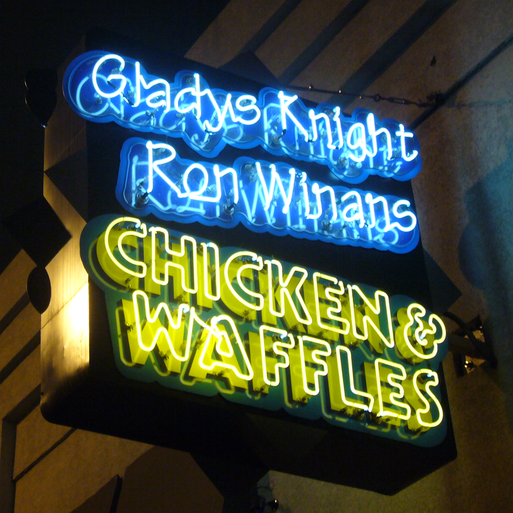 Gladys Knight and Ron Winan's Chicken & Waffles in Atlanta, Georgia.